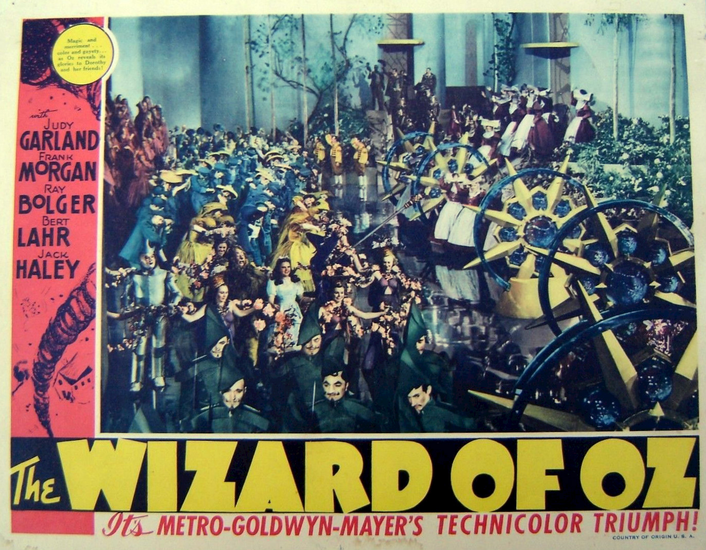 Lobby card from the original 1939 release of The Wizard of Oz. This card shows a rare still of a musical performance cut from the film, "Hail! Hail! The Witch Is Dead".